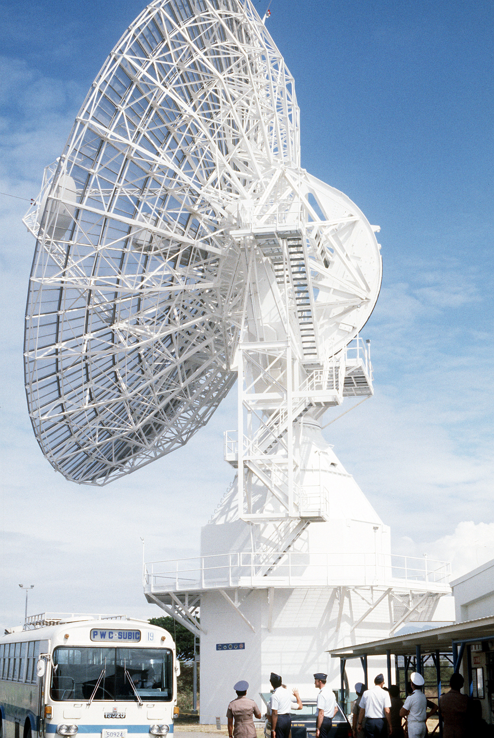 ID: DFST8611700 Service Depicted: Command Shown: F3222